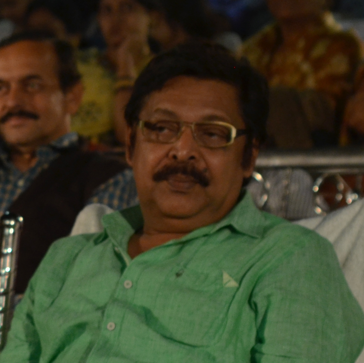 Odia author Gourahari Das and actor Mihir Das during State Film Awards 2014 at Utkal Mandap, Bhubaneswar, Odisha.